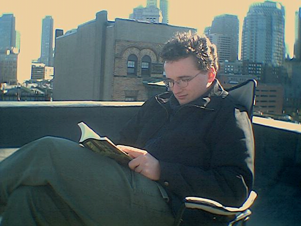 Man reading book